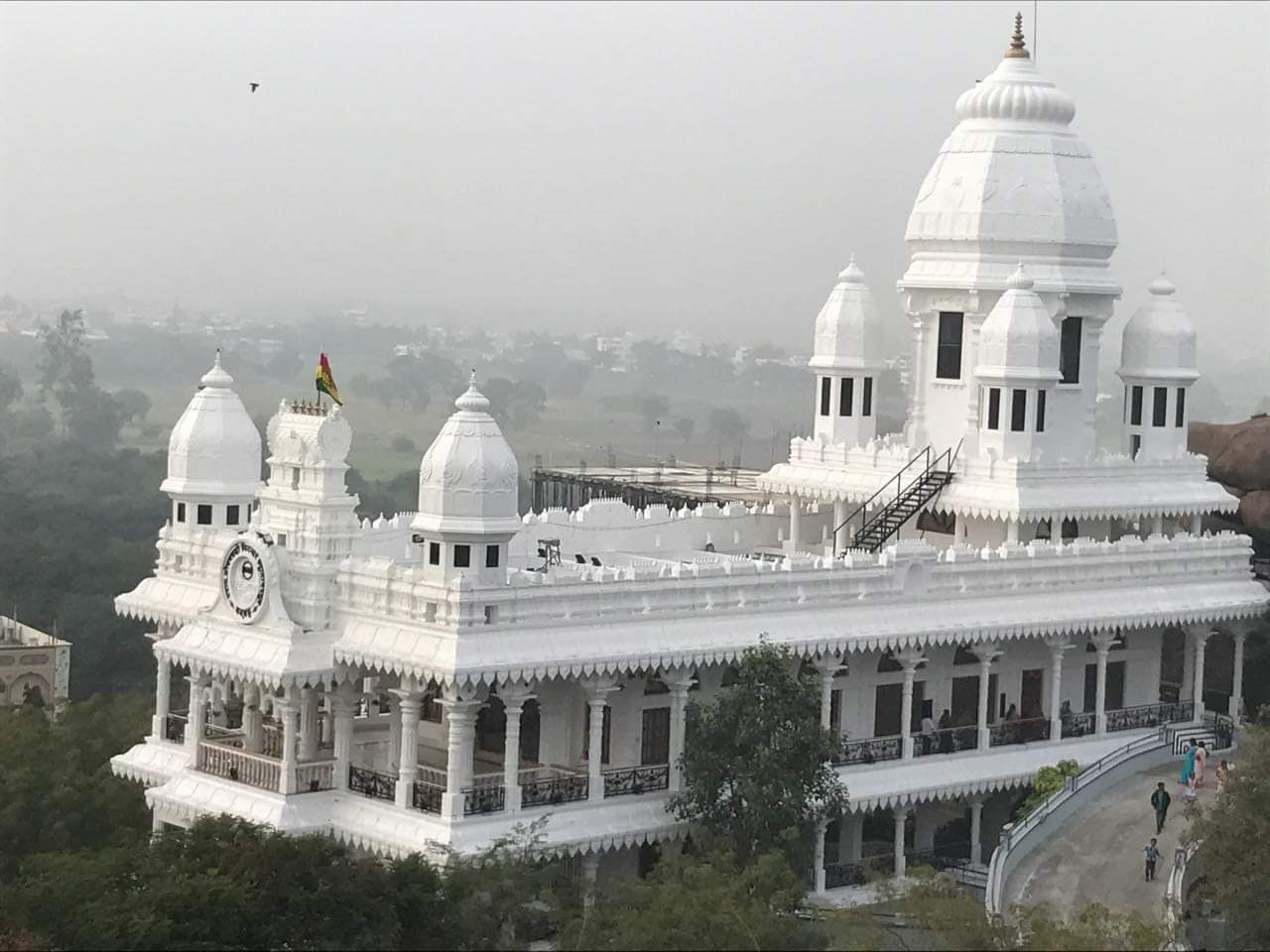 Satsang Vihar Hyderabad, Telangana